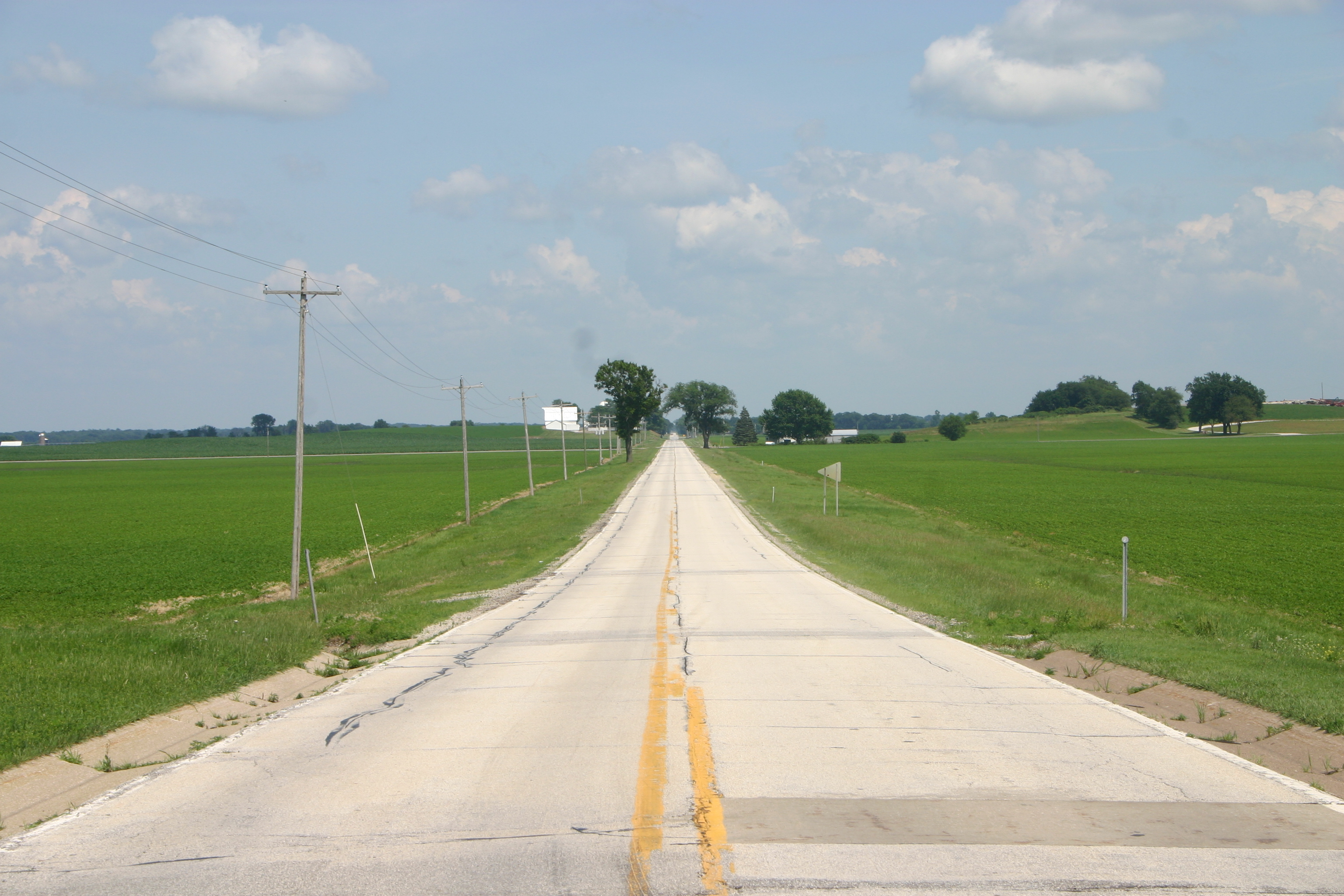 Illinois Route 92 in the fertile farmland of western Illinois, near the town of Ohio IL.